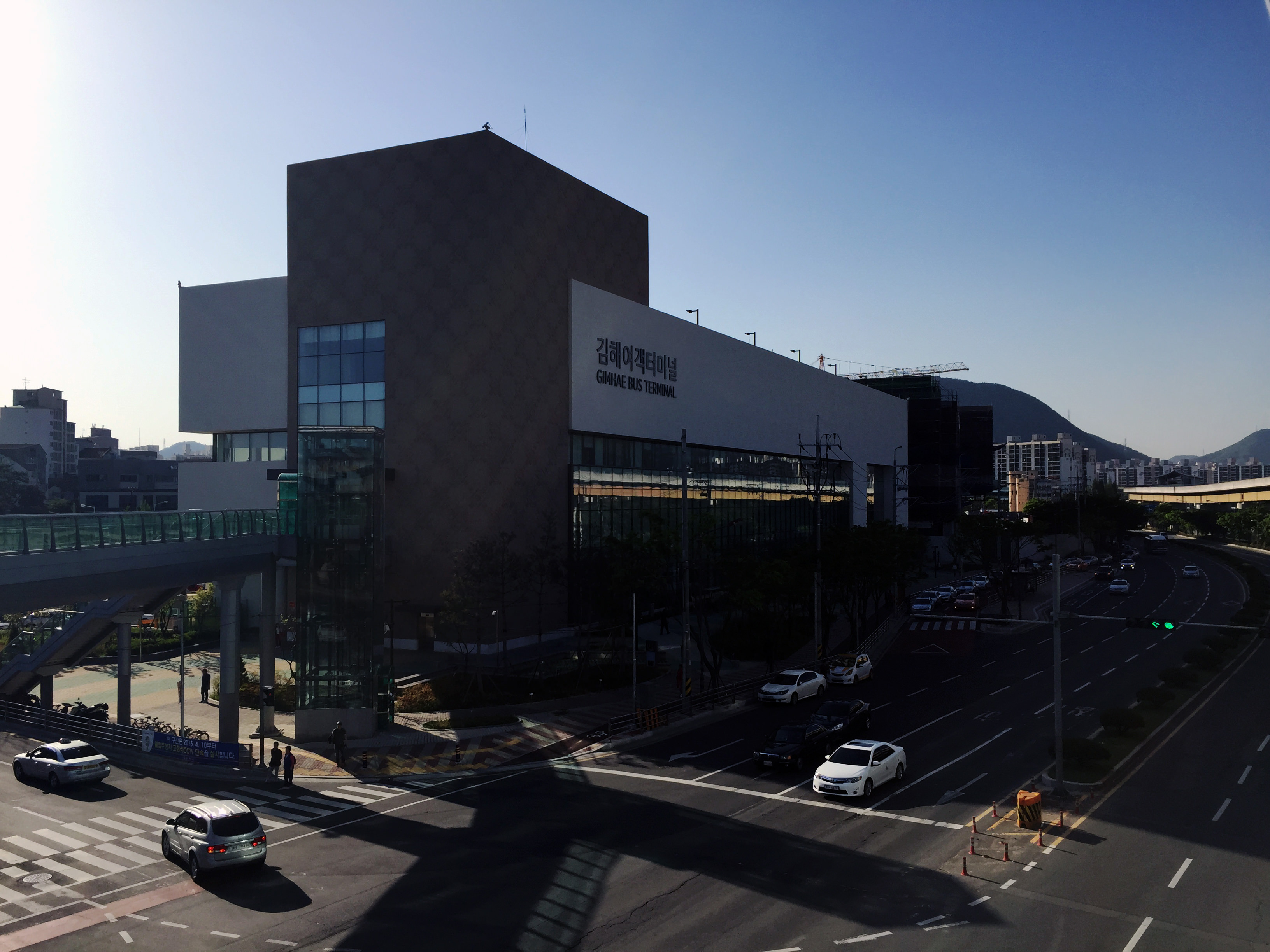 Gimhae Bus Terminal